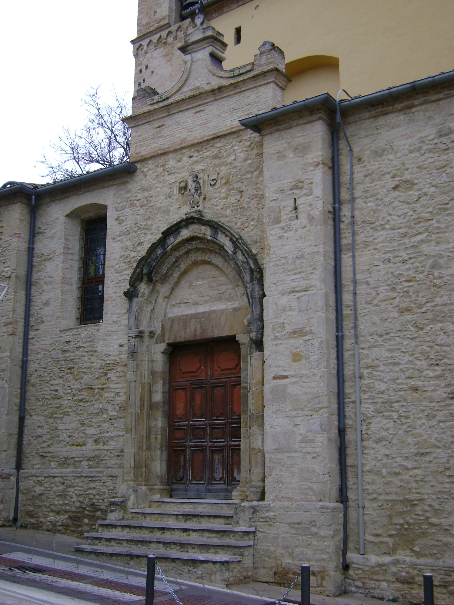 The portal of the church of San Nicola di Bari, Lanciano, province of Chieti, Abruzzo